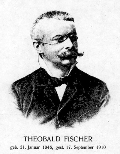 The German geographer Theobald Fischer (1846-1910) discovered a crucial feature on the 1367 Pizigani chart.